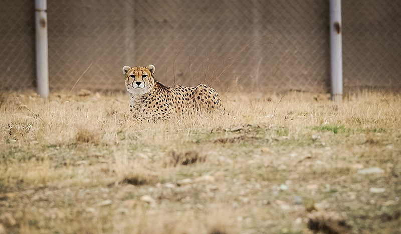 Kooshki, male Asiatic cheetah in Iran.